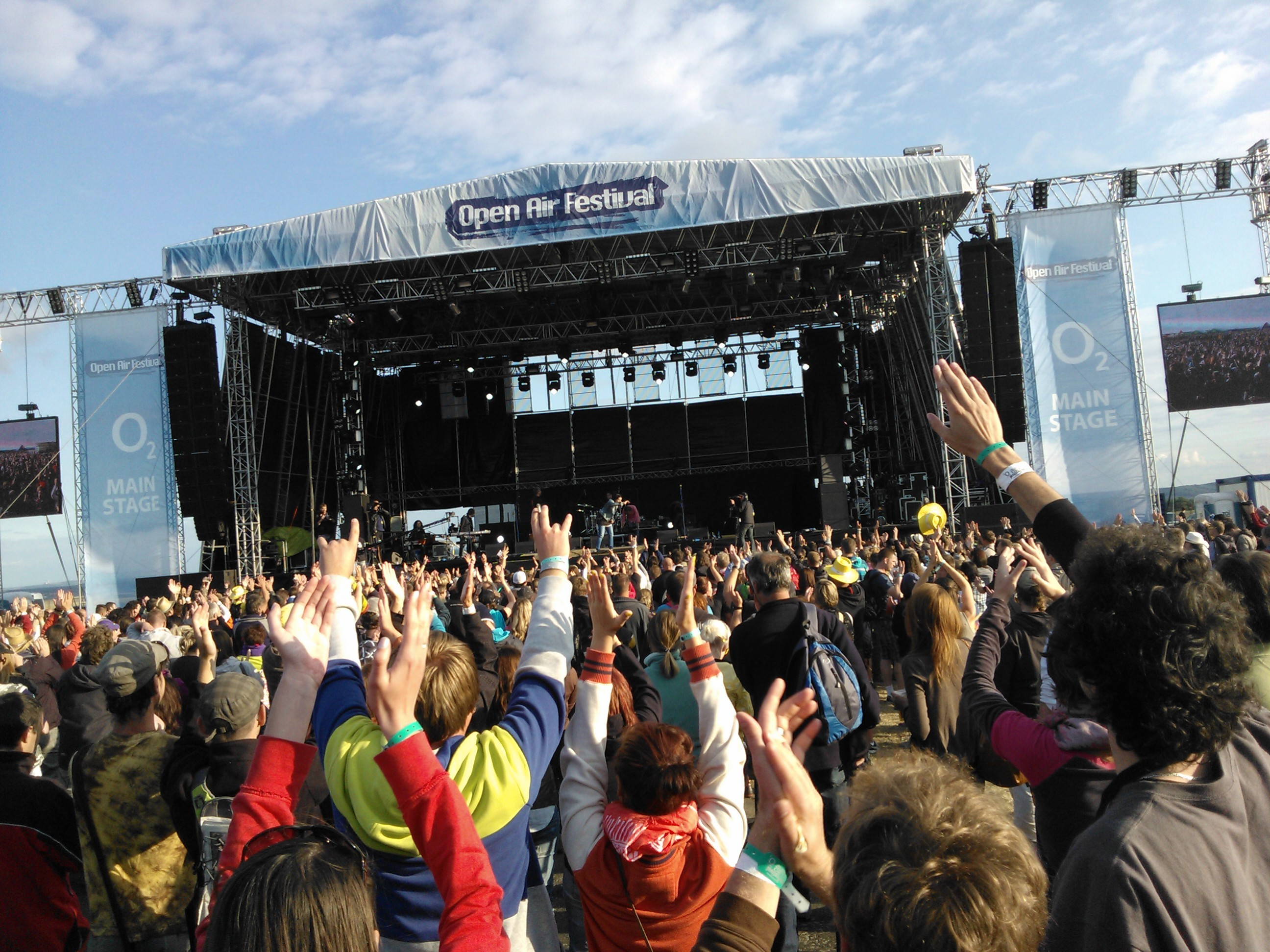 The main Stage in the Open Air Festival Panenský Týnec